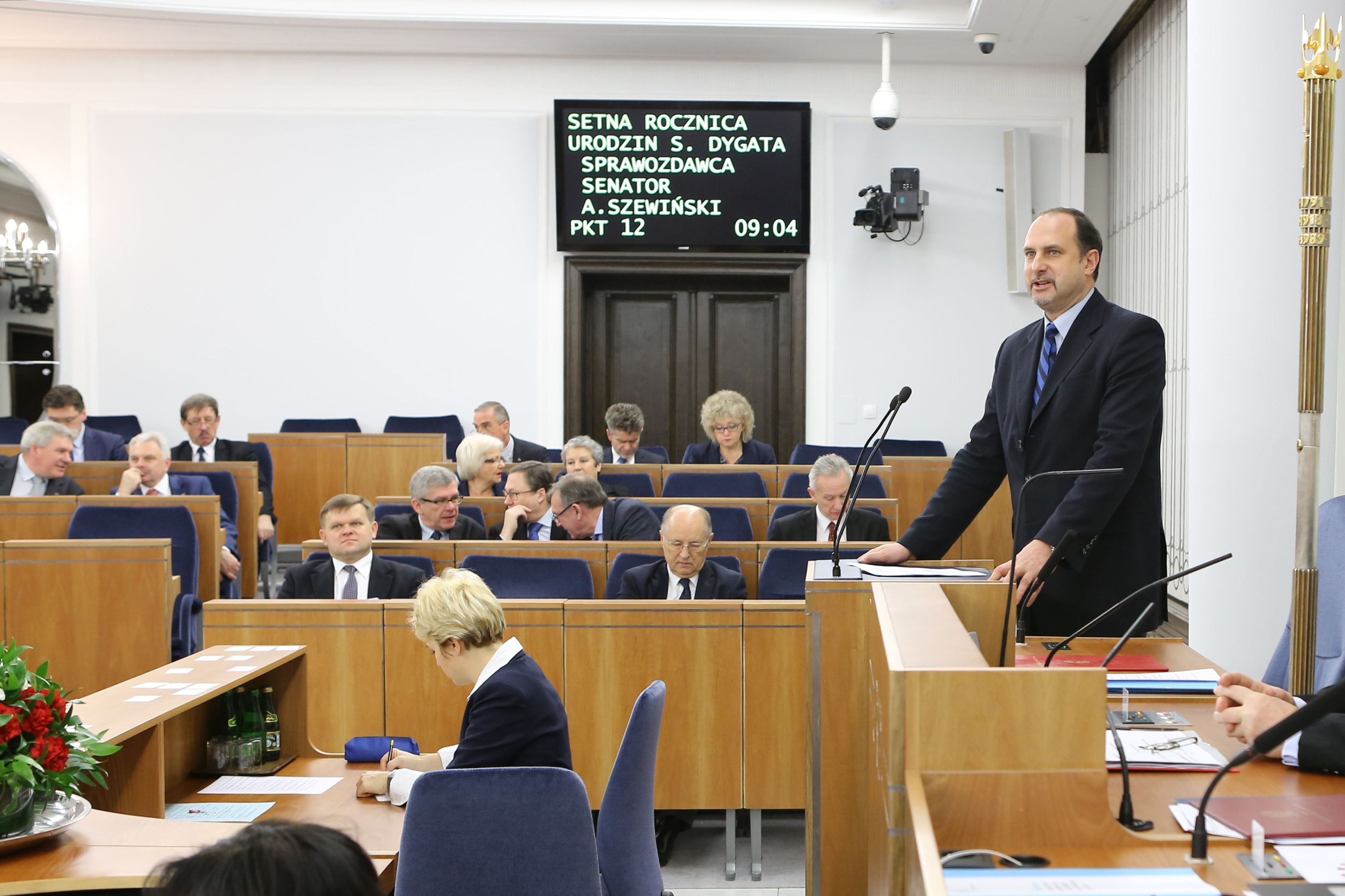 Senator Andrzej Szewiński during 66th sitting of the Polish Senate